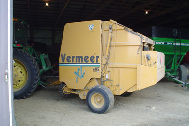 My dad's Vermeer 605 round baler in our shed near Dubuque, Iowa, USA.